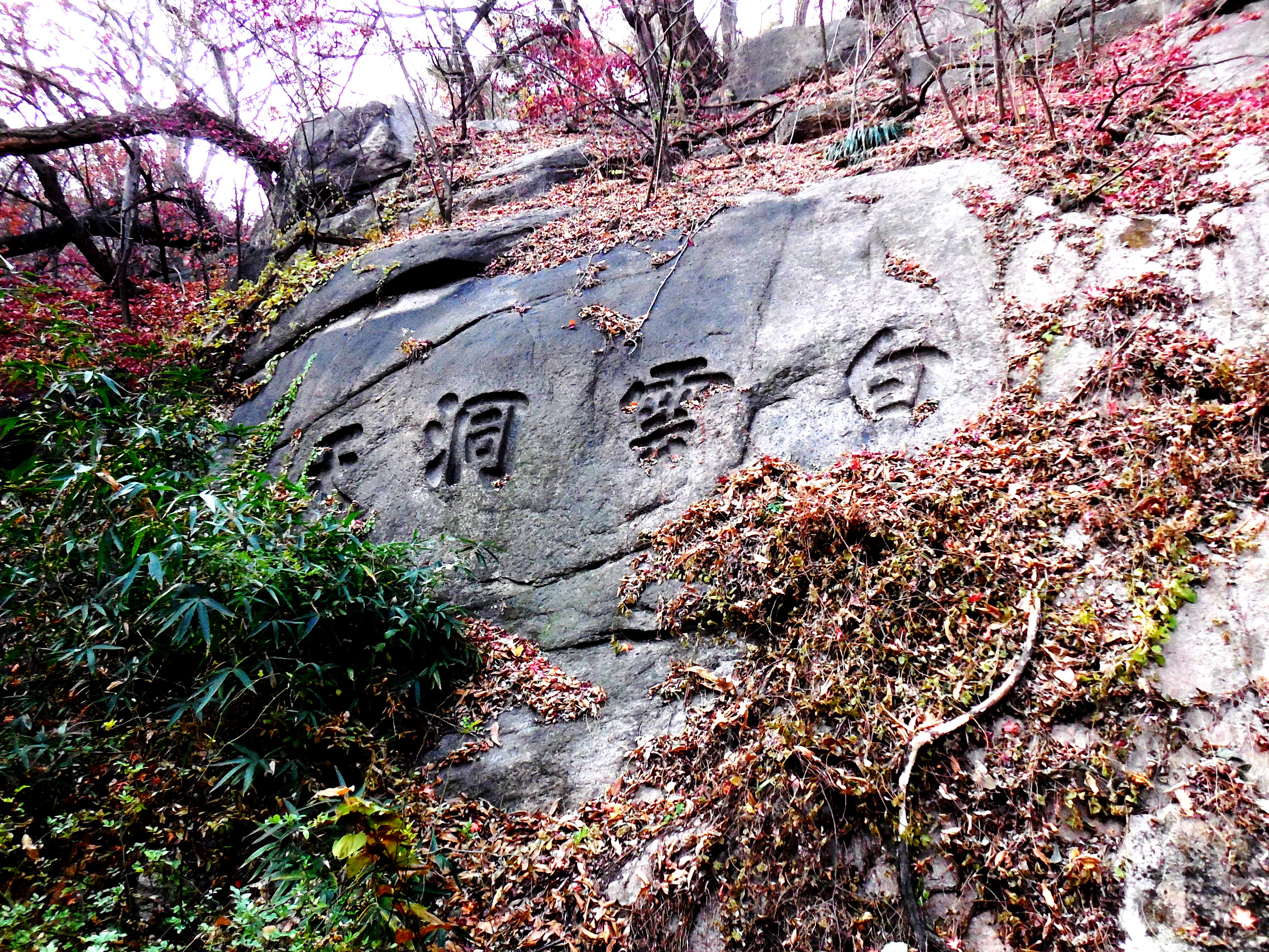 "Baegundongcheon" letter carved stone in Cheongun-dong, Jongno-gu, Seoul.